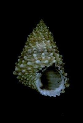 The shell of the coastal marine mollusk Tectarius coronatus Valenciennes, 1832[1] (the coronate or beaded prickly winkle) in white, under the sun. Geographic distribution: Mexico; Philippines; Celebes.[2] Specimen collected in Philippines.